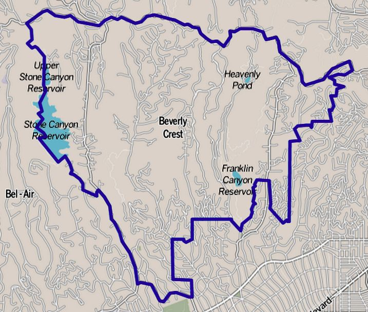 Map of Beverly Crest, as delineated by the Los Angeles Times. Other information Boundary map as drawn by the Los Angeles Times on a CC-by-SA background. Note at bottom right of map on the L.A. Times website noted above says "CC-by-SA" (which gives permission to use the map). There is a link there to which explains the meaning thereof. The base map is credited to The Times spells all this out at